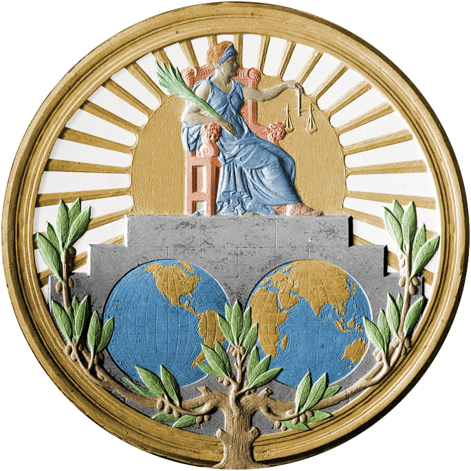 The seal of the International Court of Justice